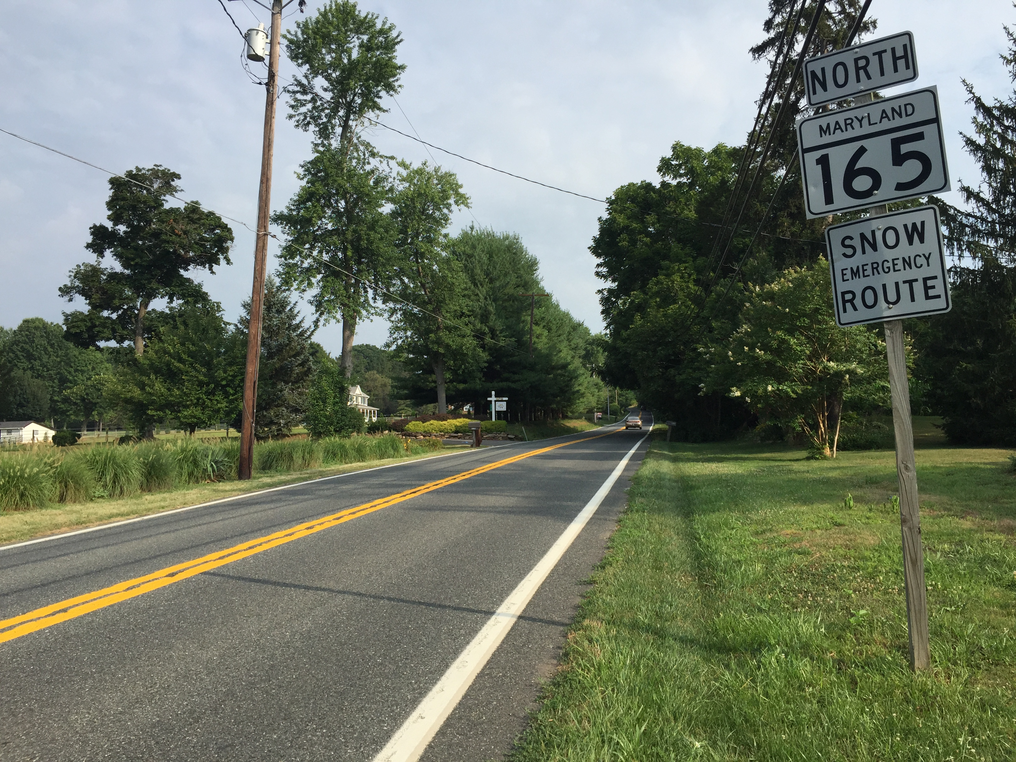 View north along Maryland State Route 165 (Baldwin Mill Road) near Lynch Lane in Baldwin, Baltimore County, Maryland